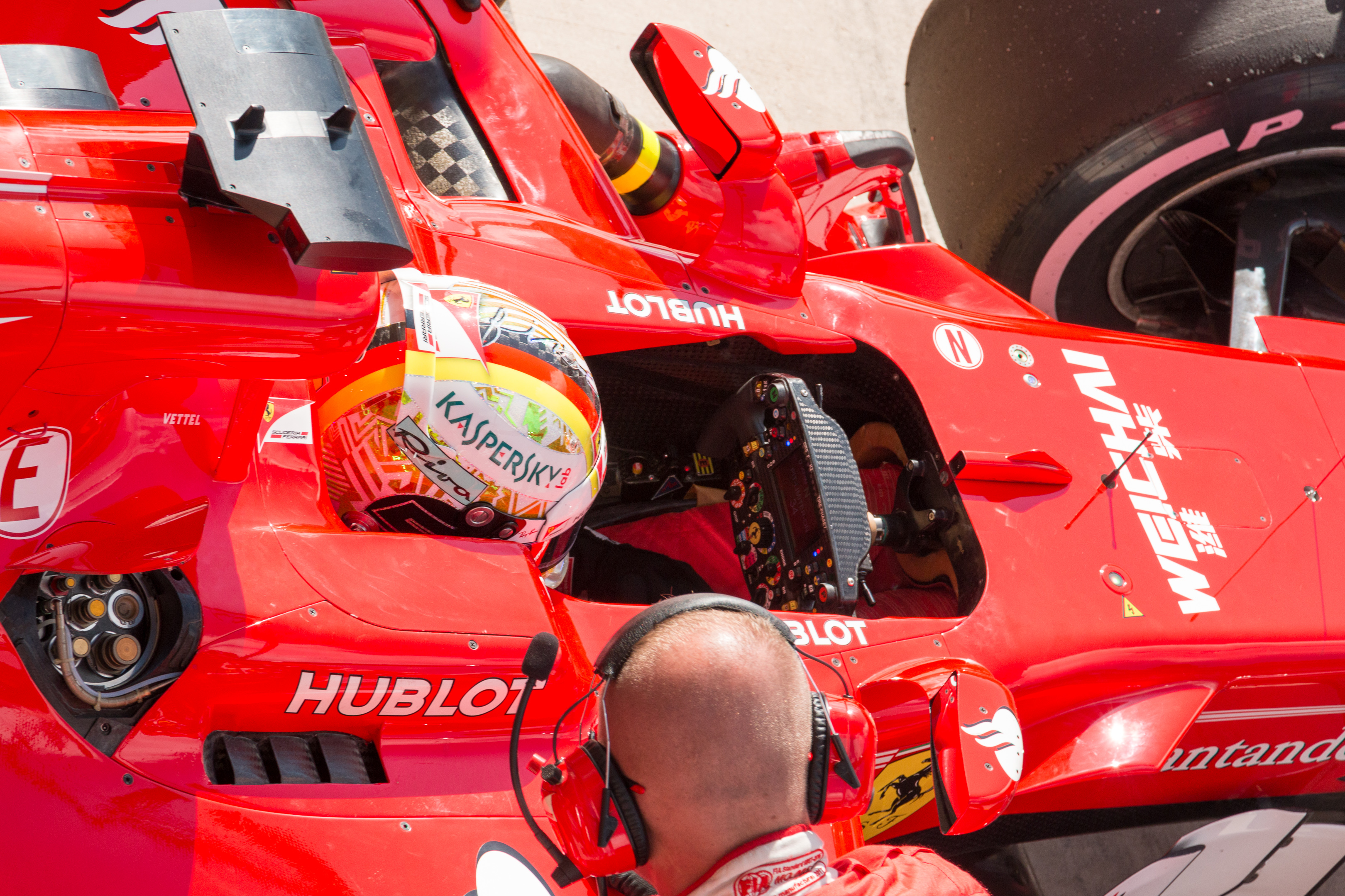 USGP Austin Oct 2017